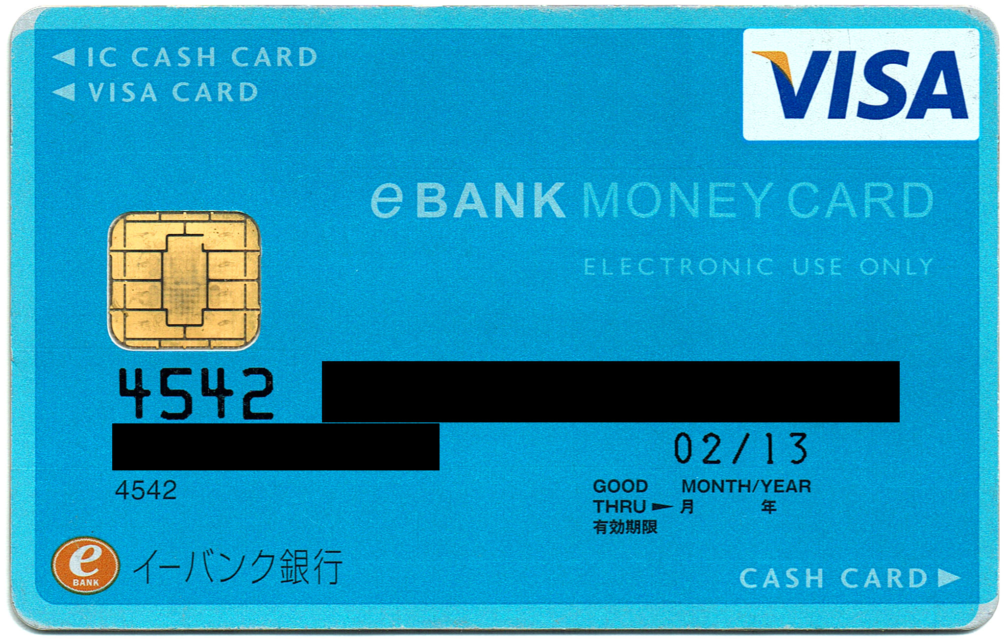 ATM and debit card published by eBANK Corporation (now Rakuten Bank).